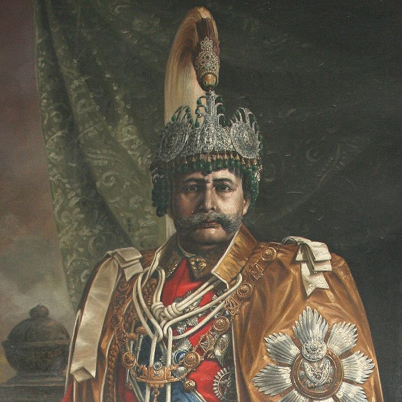 Mohan Shamsher Jang Bahadur Rana as Maharaja of Kaski and Lamjung (1948-1951)